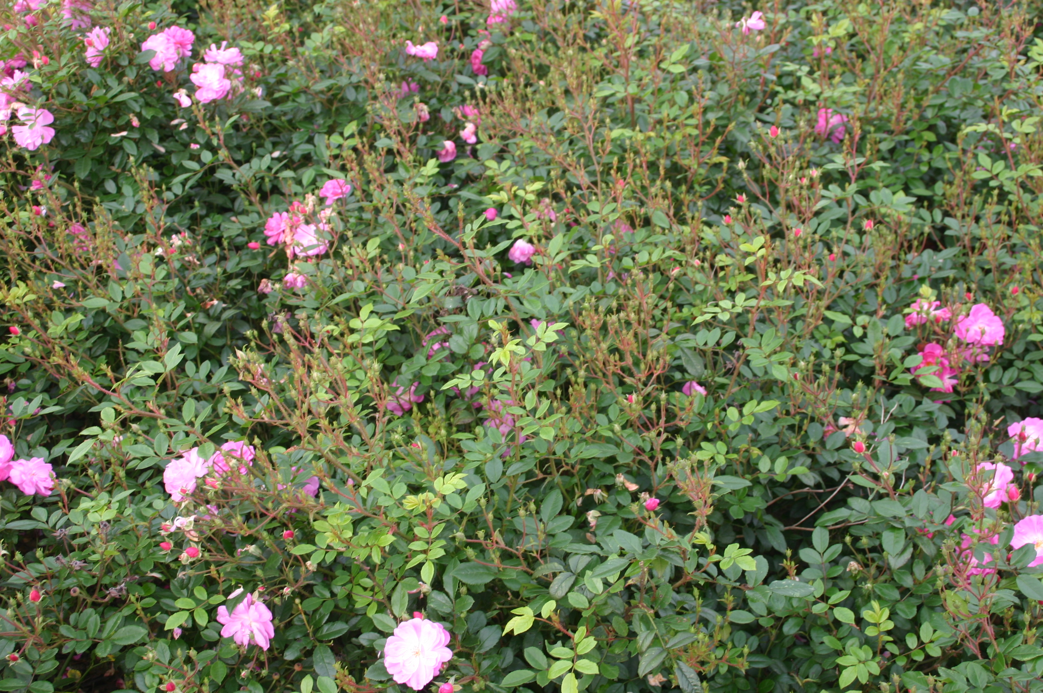 Groundcover roses with added fertilizer, photo taken in Jutland.